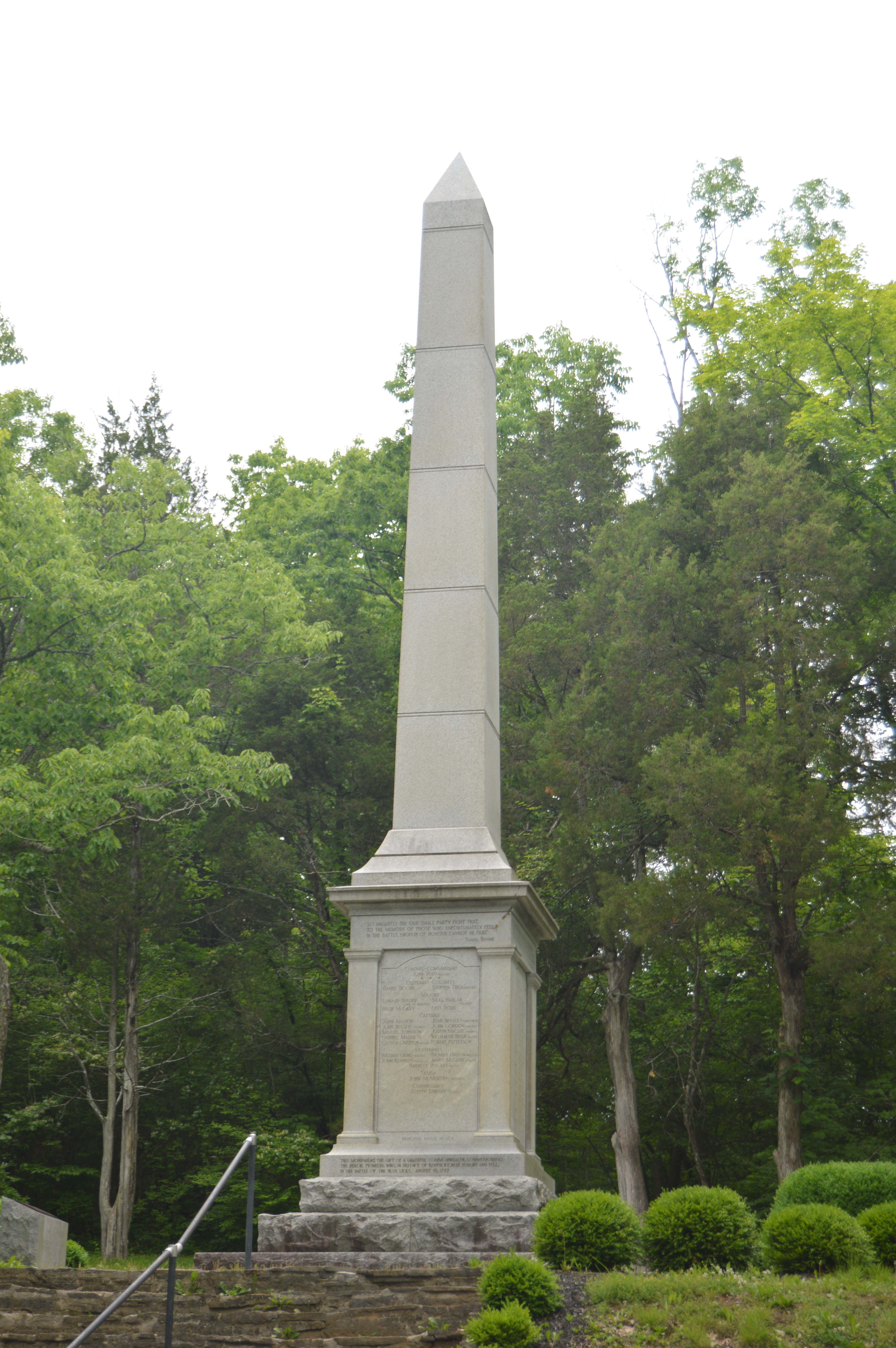 A memorial obelisk to the Americans who fought at the Battle of Blue Licks, located off U.S. Route 68 at Blue Licks Battlefield State Park in Robertson County, Kentucky, United States. According to an inscription just above the pilasters, the obelisk was placed in 1928.